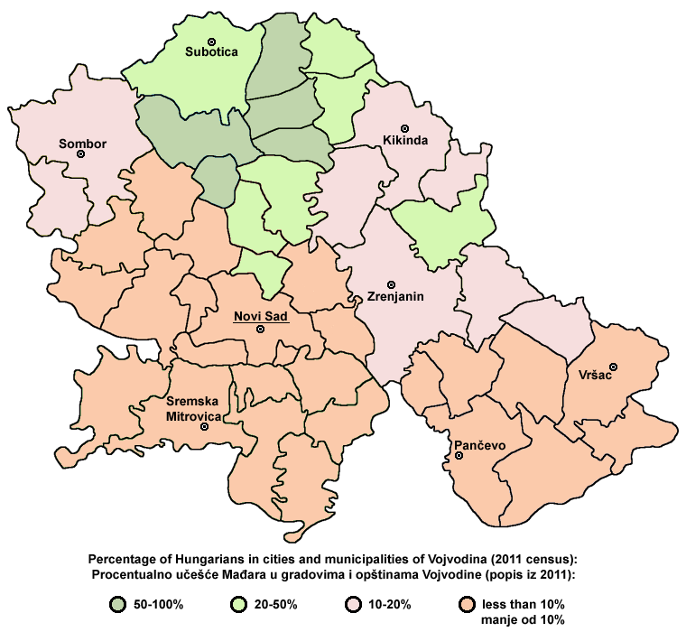 Percentage of Hungarians in cities and municipalities of Vojvodina (2011 census).